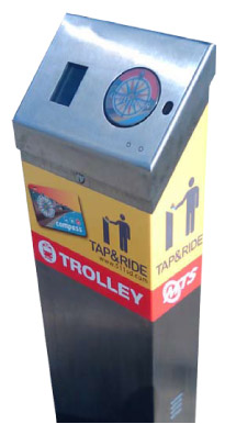 Compass Card trolley validator, San Diego, California.